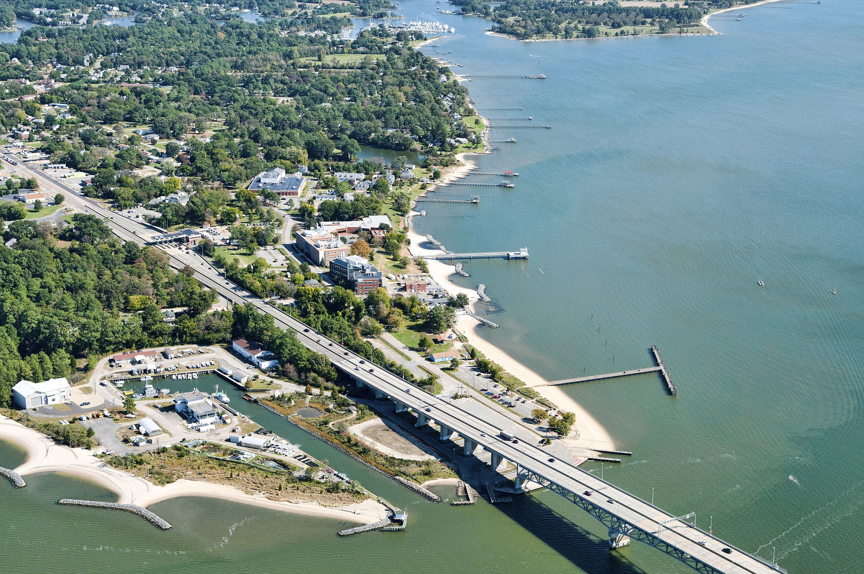 The 42-acre Gloucester Point Campus of the Virginia Institute of Marine Science.